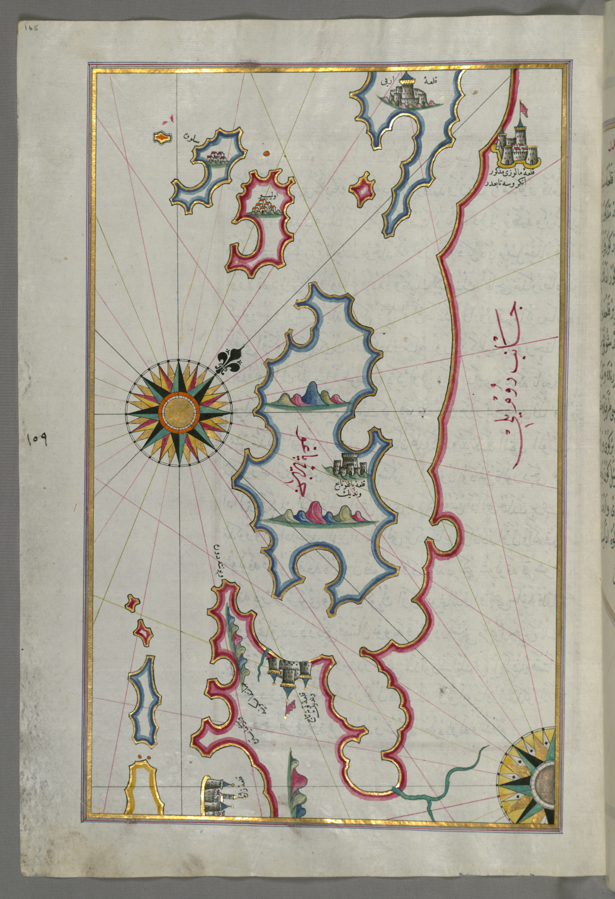 This folio from Walters manuscript W.658 contains a map of the islands of Pag (Paghu) and Rab (Arbe) (Croatia).